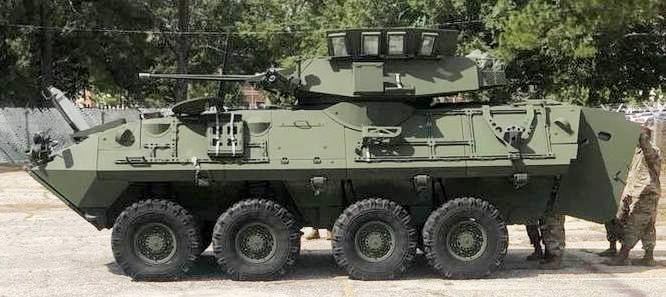 A U.S. Army LAV-25A2 from Alpha Company, 4th Battalion, 68th Armor Regiment, 1st Brigade Combat Team of the 82nd Airborne Division.